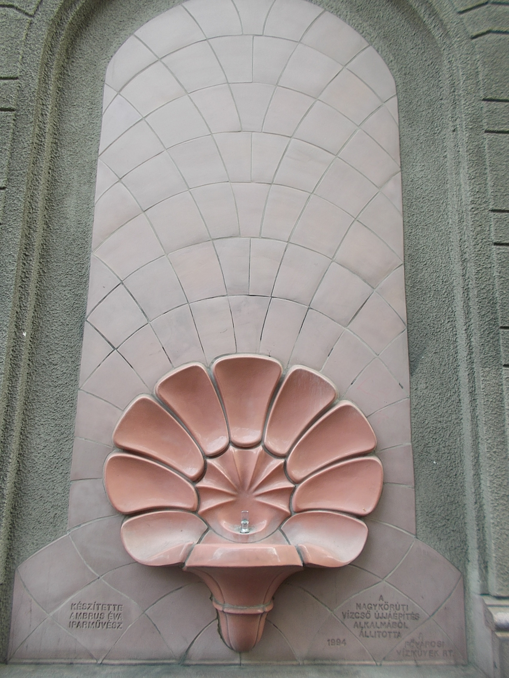 Dwelling building with shops on ground floor. Water well by Éva Ambrus in 1994. - Erzsébet Boulevard, Budapest District VII., Hungary.